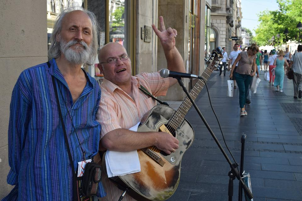 Dragomir Milenkovic Yoga and famous Belgrade street musician Vladan Stojanovic - Vlada el Gigante